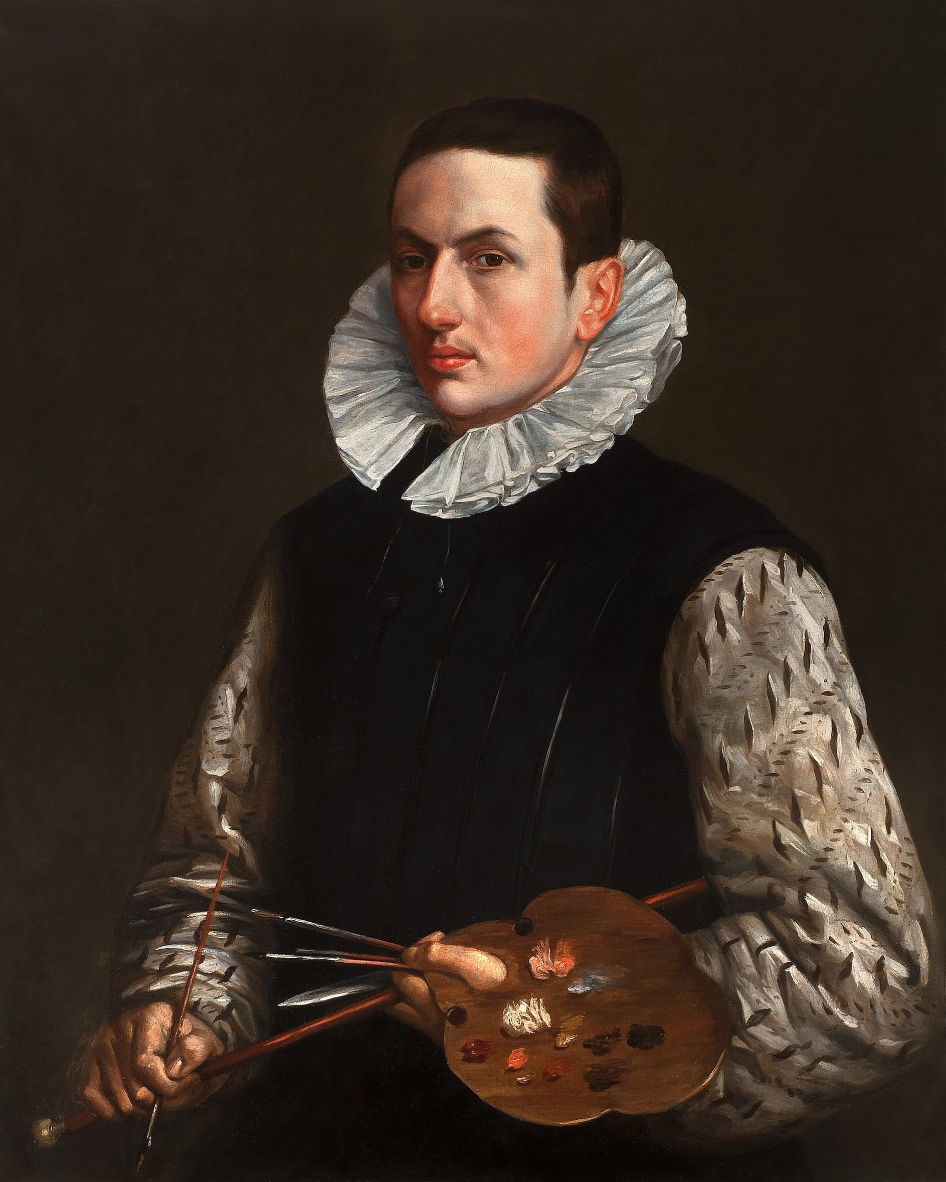 The Hoefnagel family